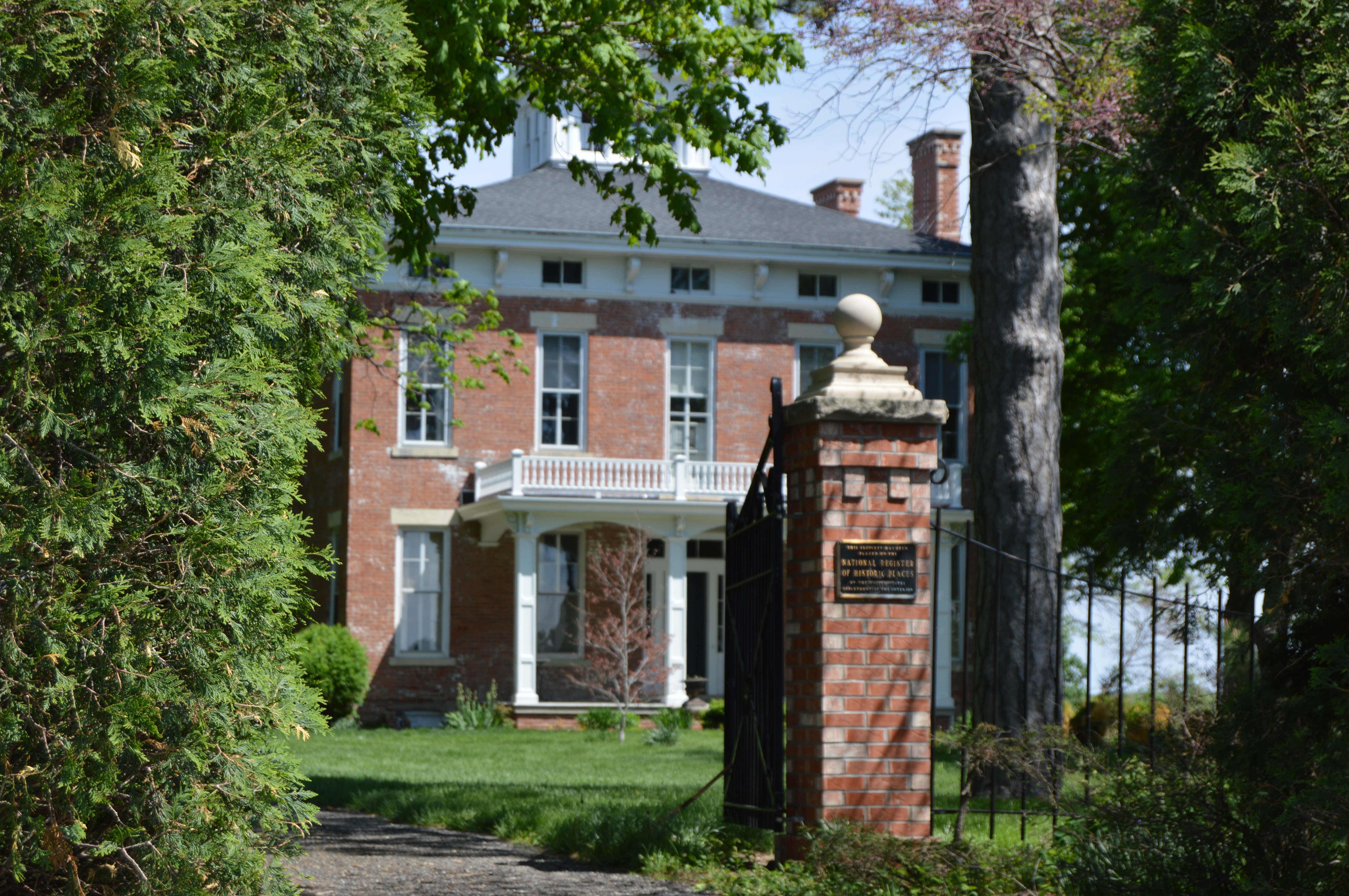 Front of the Eli Ulery House, located on Sefton Road southeast of Mount Zion in Mount Zion Township, Macon County, Illinois, United States. Built in 1860, it is listed on the National Register of Historic Places.